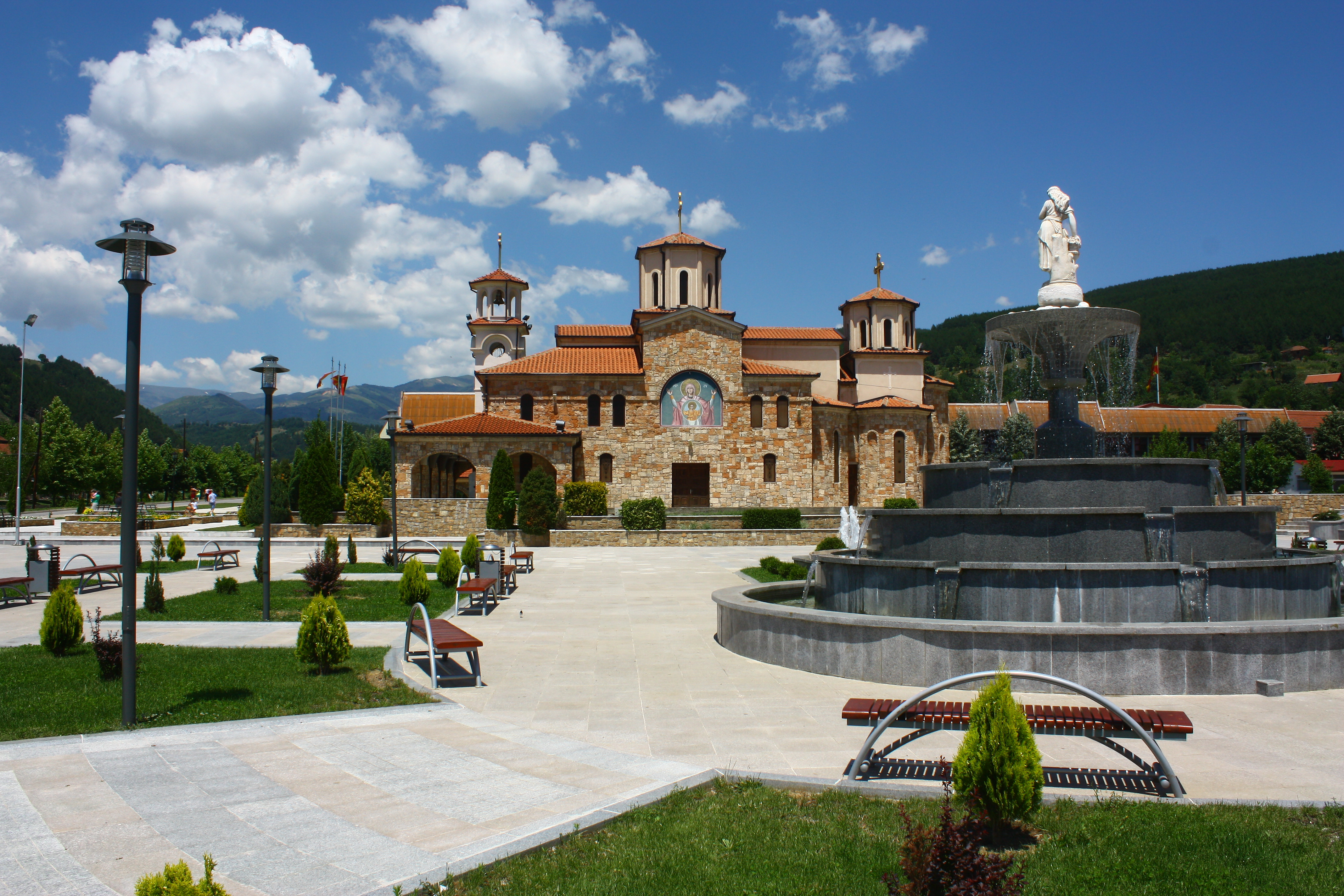 Dormition of the Theotokos Church in Makedonska Kamenica, Macedonia